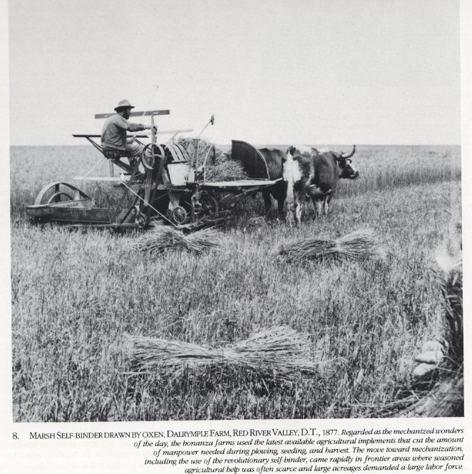 Marsh Self Binder,Dalrymple Farms, Red River Valley, D.T. 1877 by Frank Jay Haynes